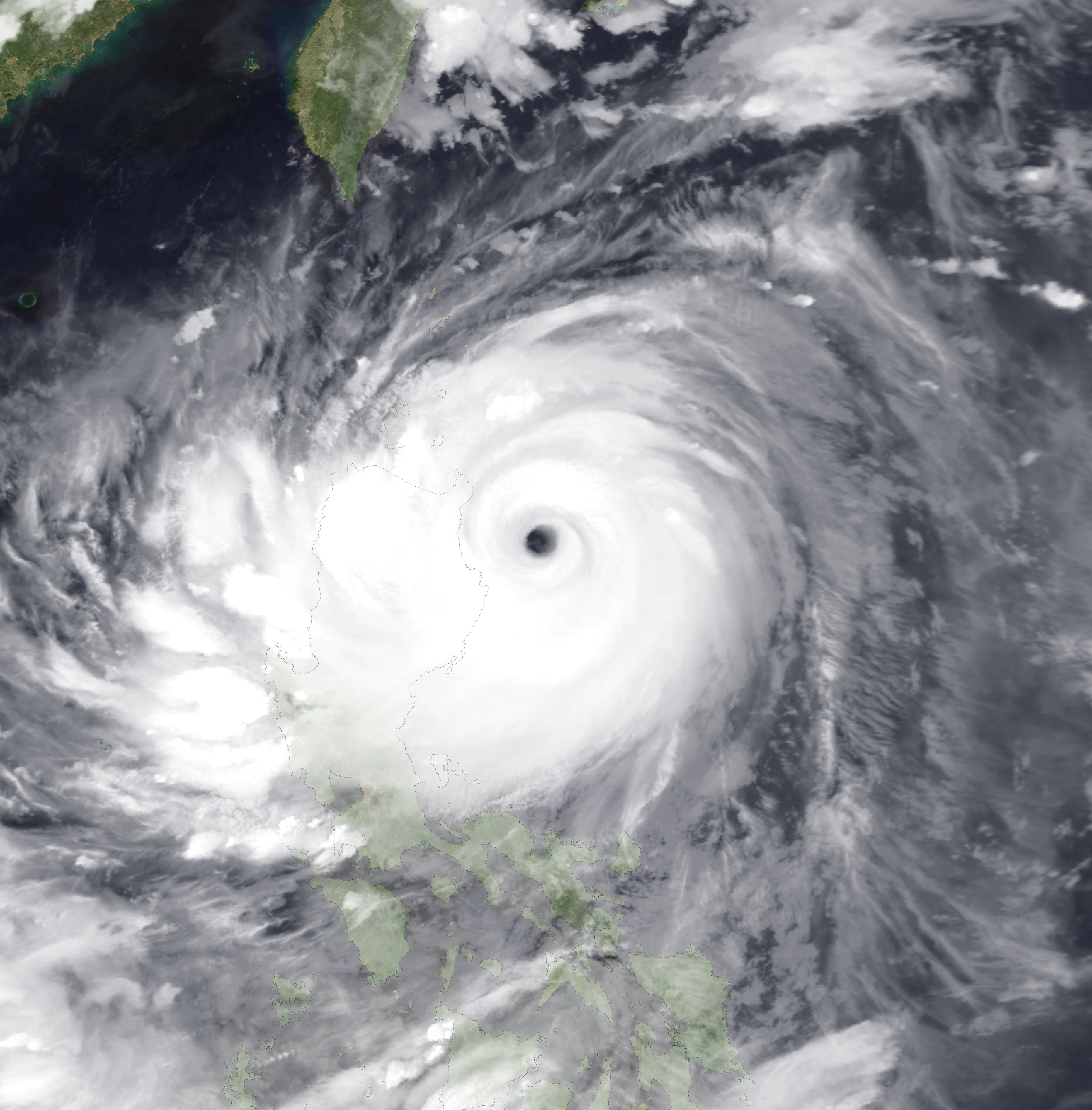 Typhoon Nanmadol near peak intensity east of the Philippines on July 26